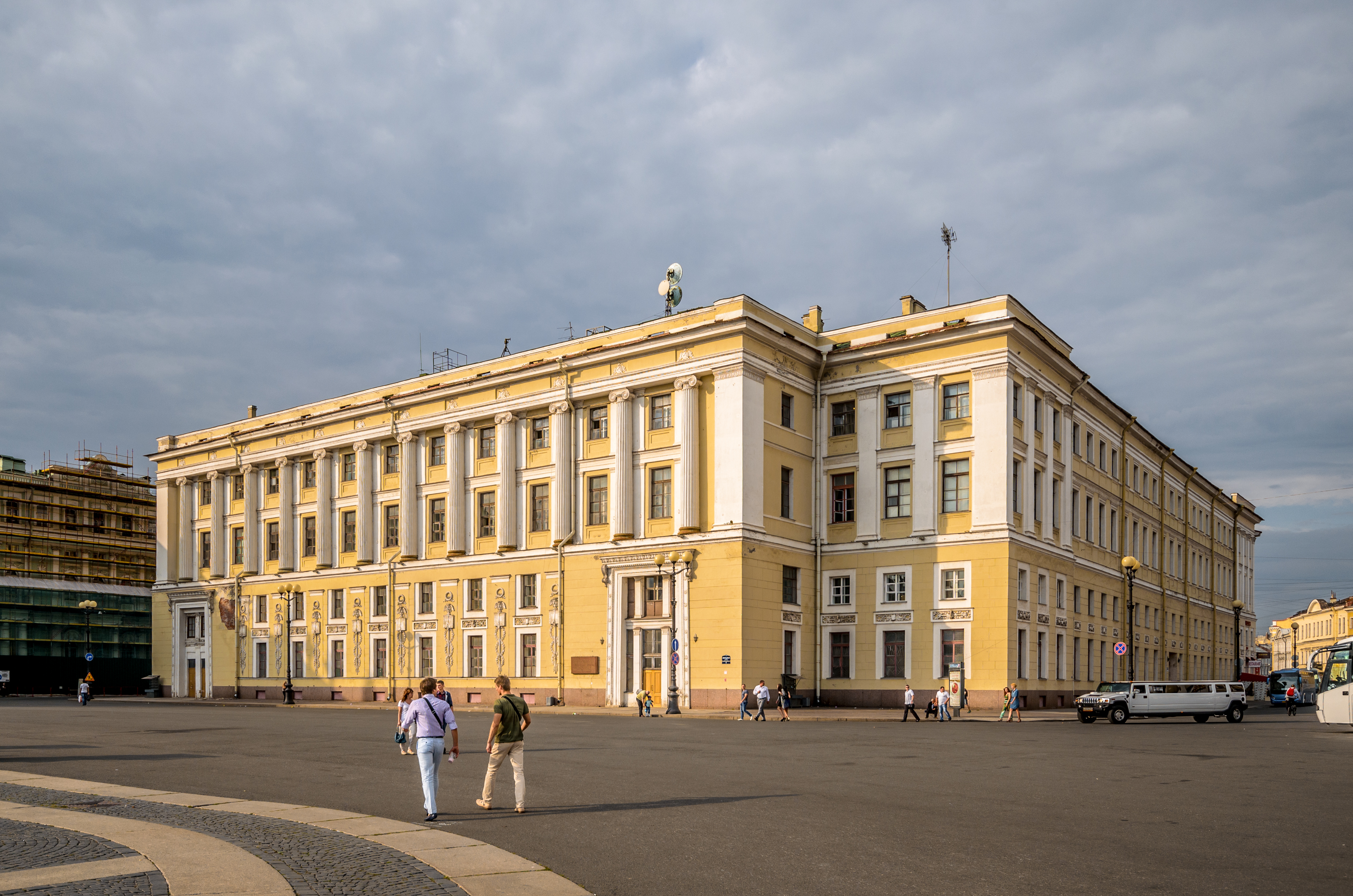 Guards Corps Headquarters at Palace Square in Saint Petersburg